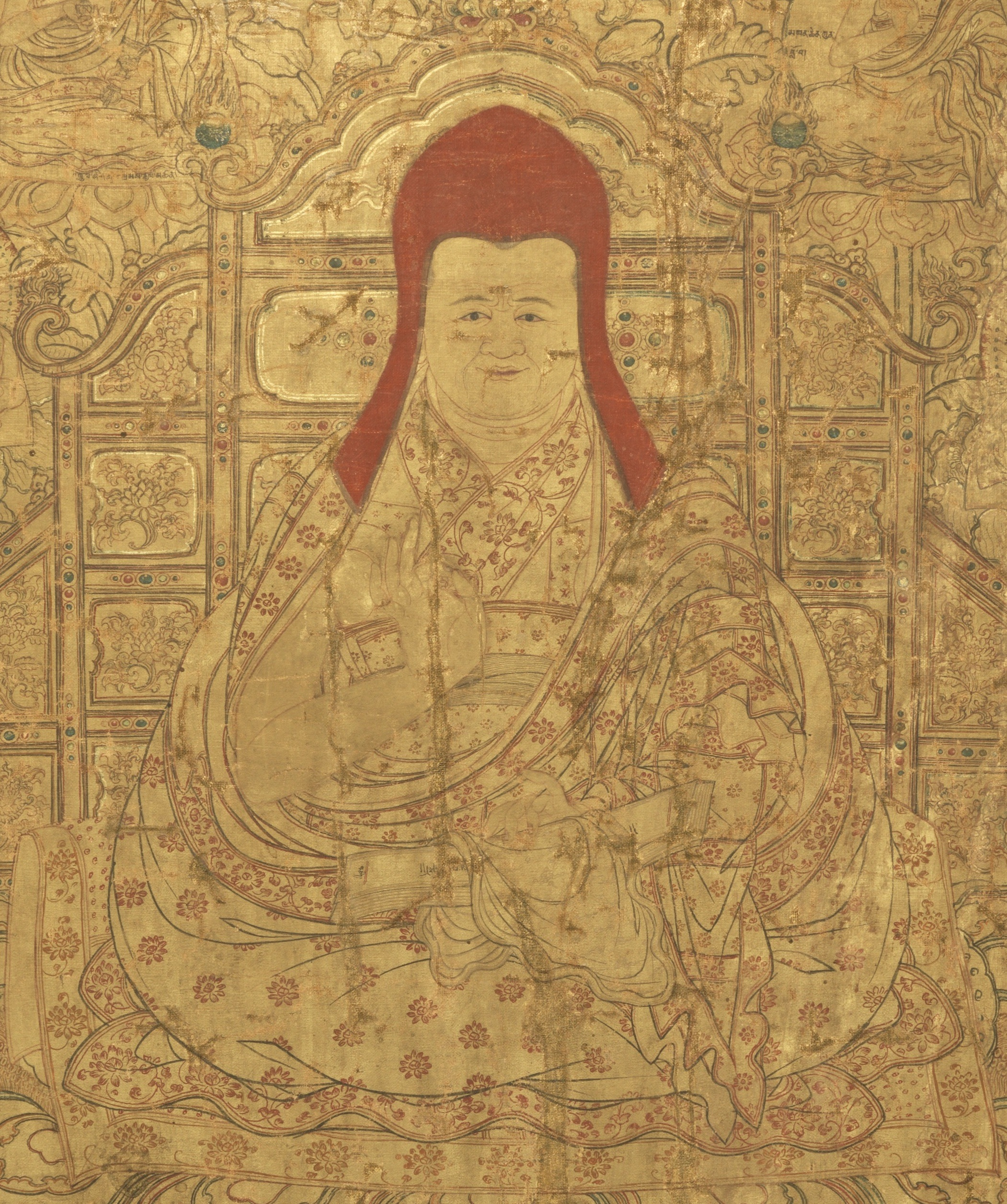 Sakya Lotsāwa Jampai Dorje, b.1485 - d.1533, 22nd Sakya Trizin